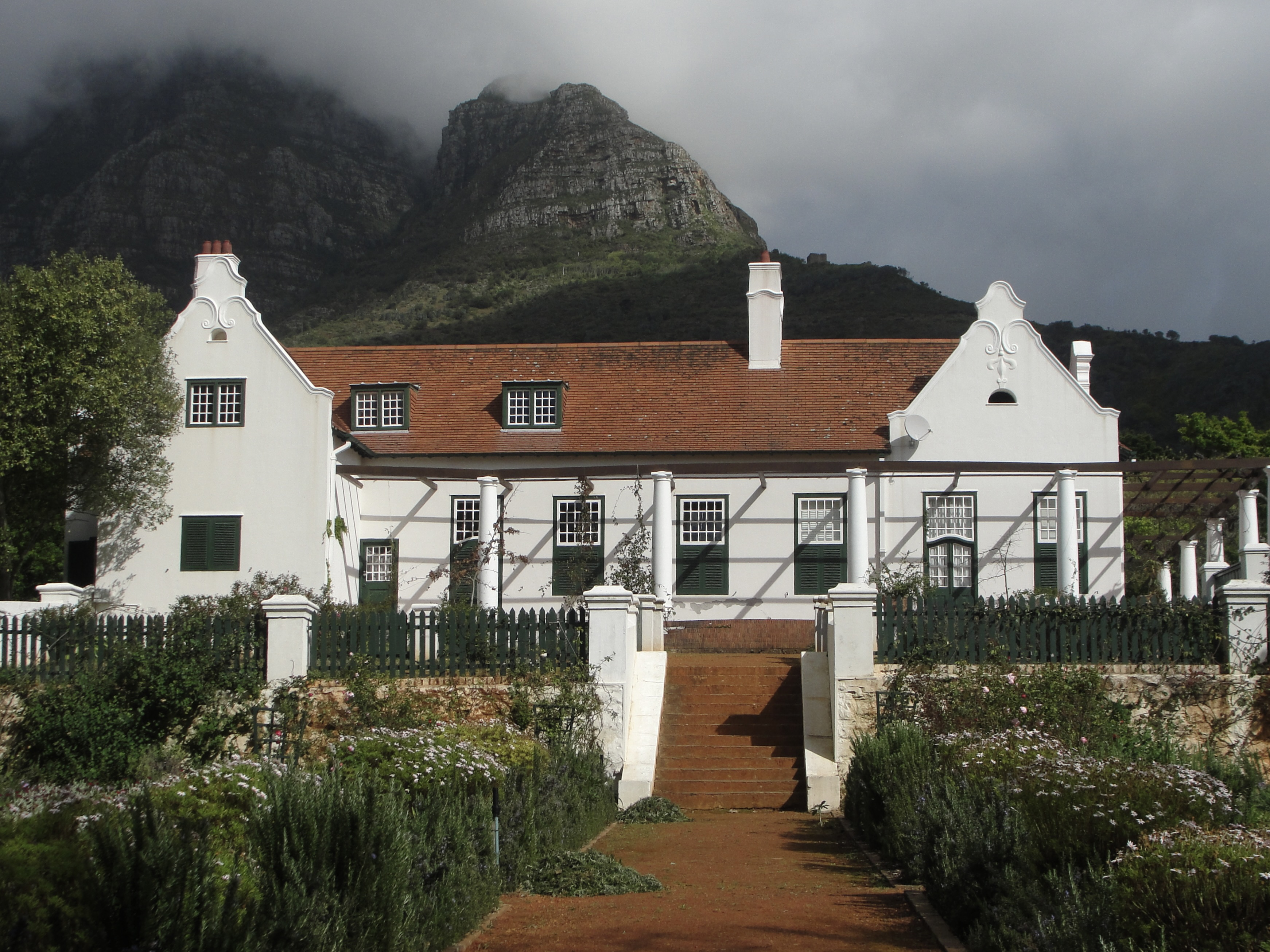 Welgelegen, UCT This media shows a South African Protected Site with SAHRA file reference 9/2/111/0064/002.